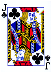 A Playing card: jack of clubs , from poker deck, in small png format.